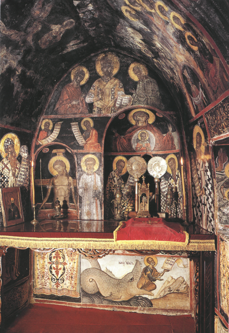 Agios Nikolaos Anapafsas